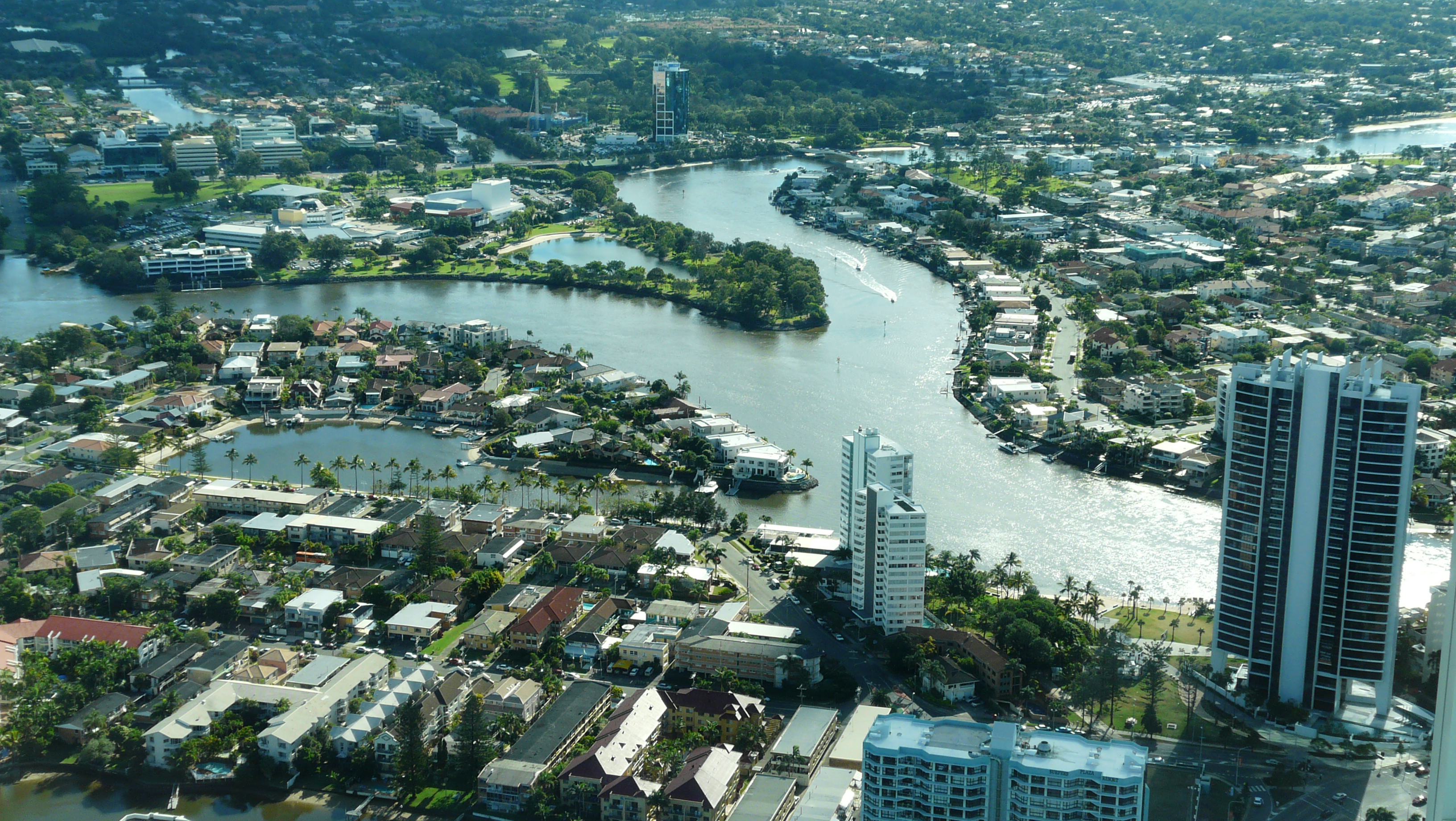 Q deck view, Q1, gold coast